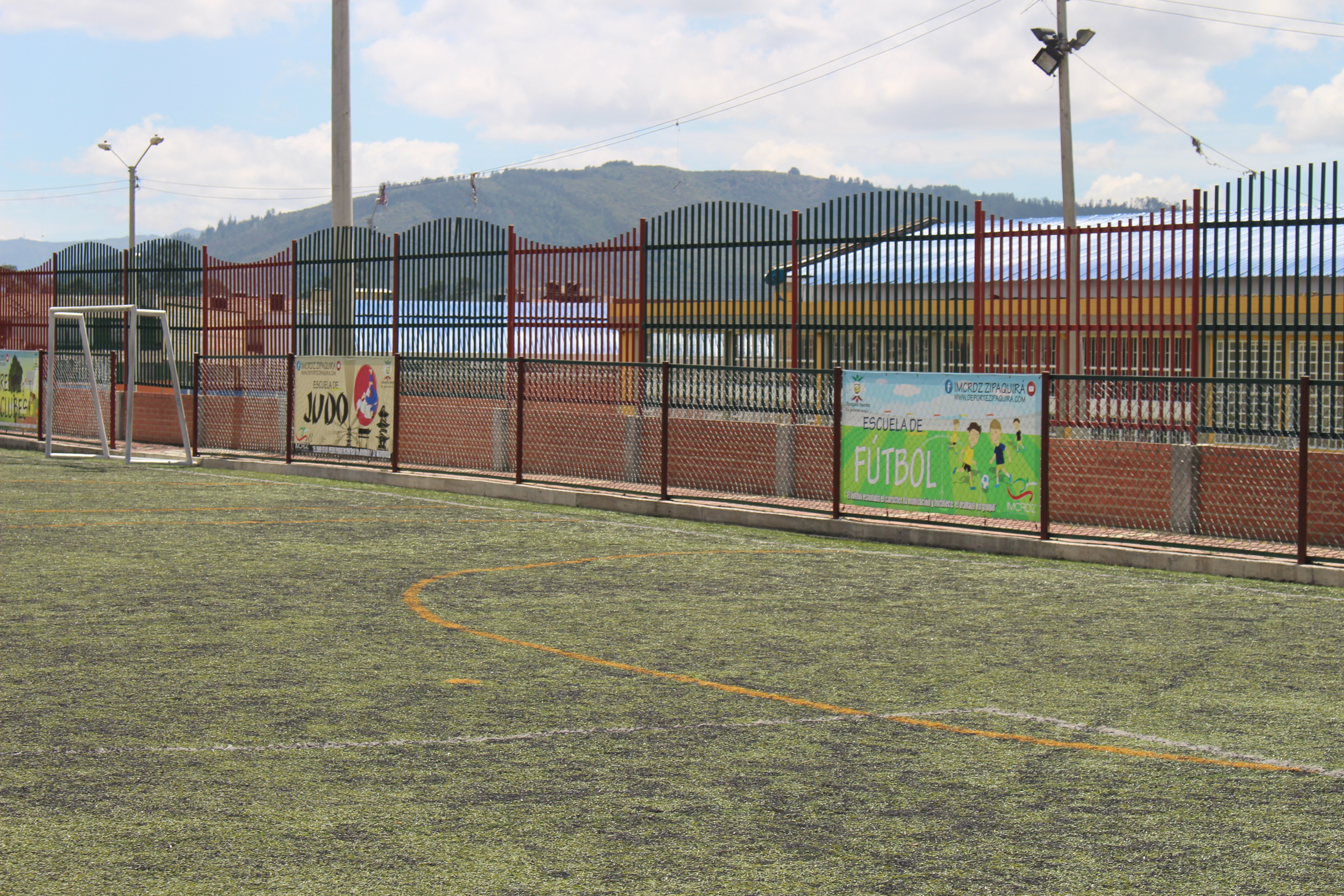 imcrdz